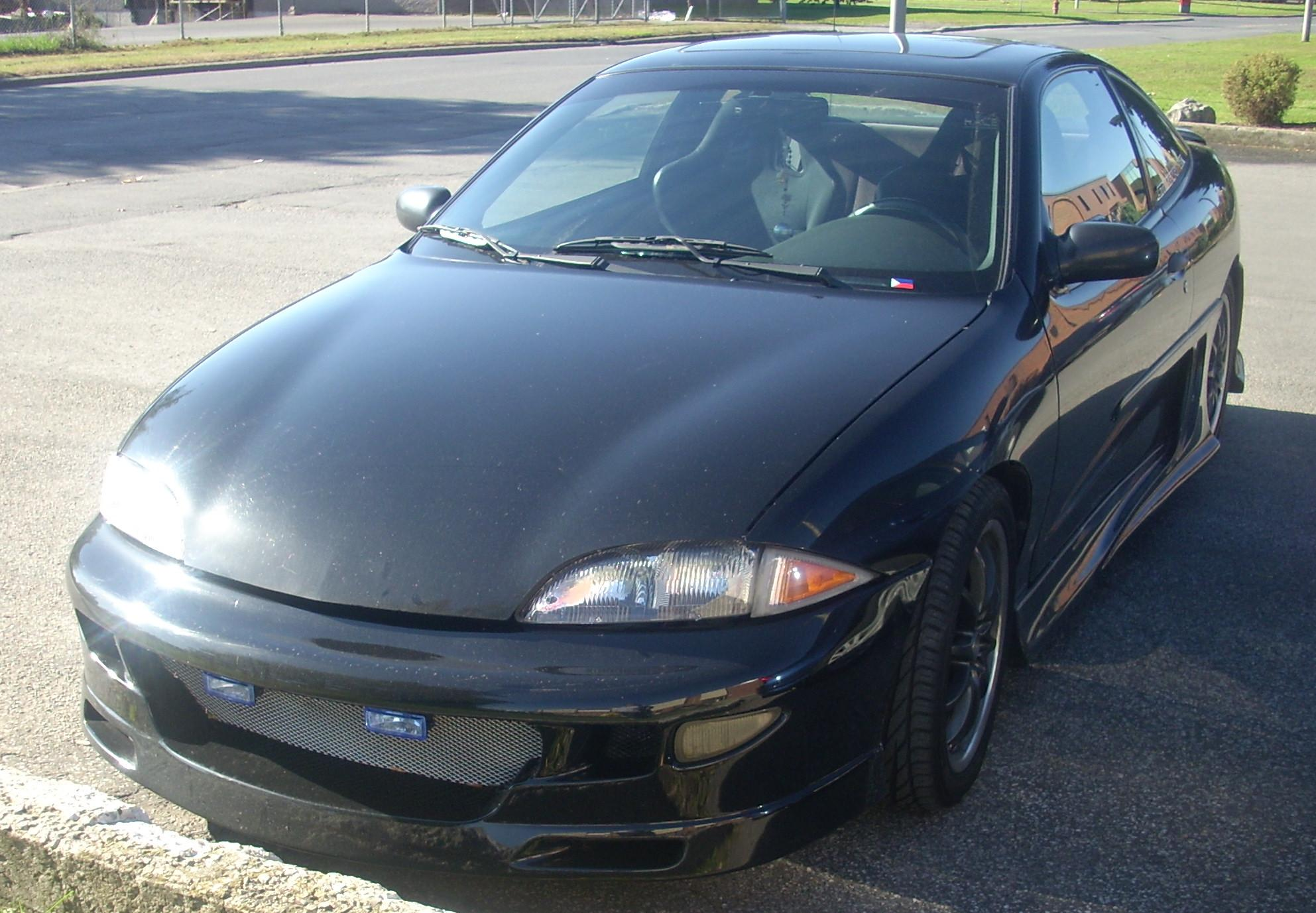 Chevrolet Cavalier photographed in Montreal, Quebec, Canada.